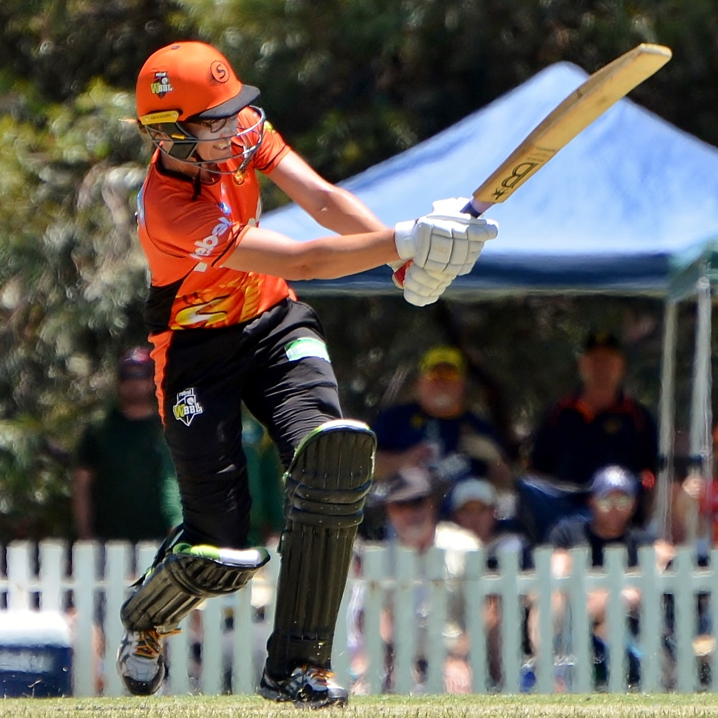 Lauren Ebsary batting for Perth Scorchers (WBBL) against Sydney Thunder (WBBL) at Lilac Hill Park, Perth, Australia